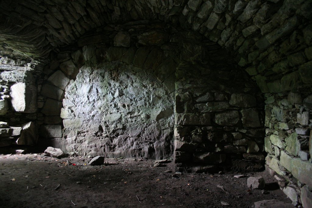 Vaulted cellar, Old Castle Lachlan